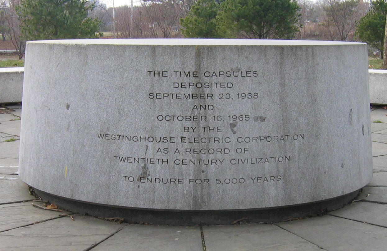 Marker of Westinghouse Time Capsules in New York